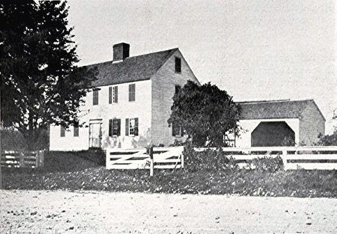 "Home of James K. Story. Said to be the first framed house in town," Hopkinton, NH; from "The Settlement of a Town," an article published in Granite Monthly Magazine, 1901.